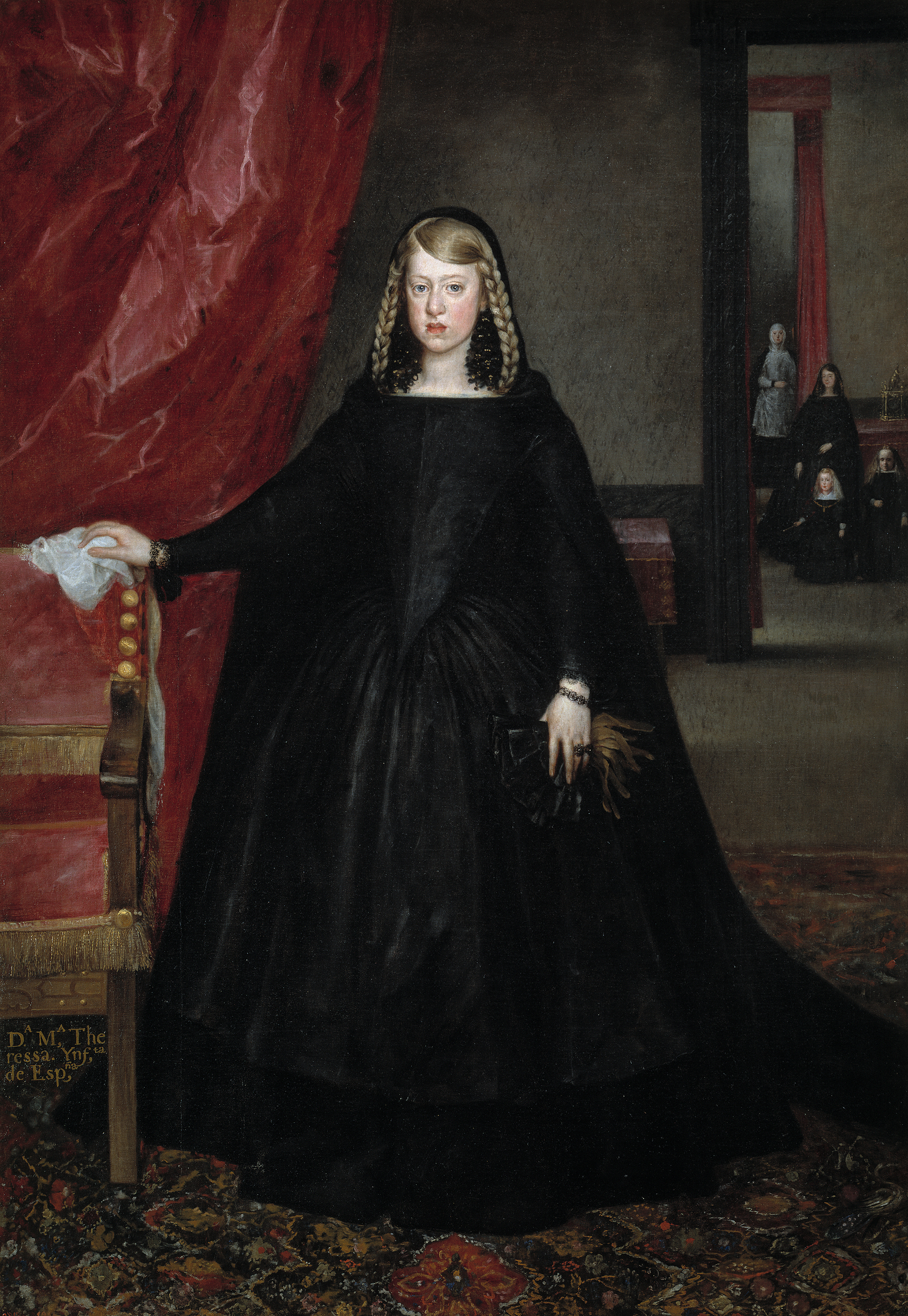 The sitter is Margaret of Spain, first wife of Leopold I, Holy Roman Emperor, wearing mourning dress for her father, Philip IV of Spain, with children and attendants in mourning dress.